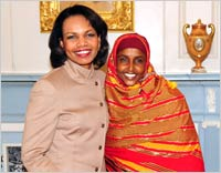 Secretary of State Condoleezza Rice (l) hugs 2008 International Women of Courage Award recipient Farhiyo Farah Ibrahim (r) of Somalia.